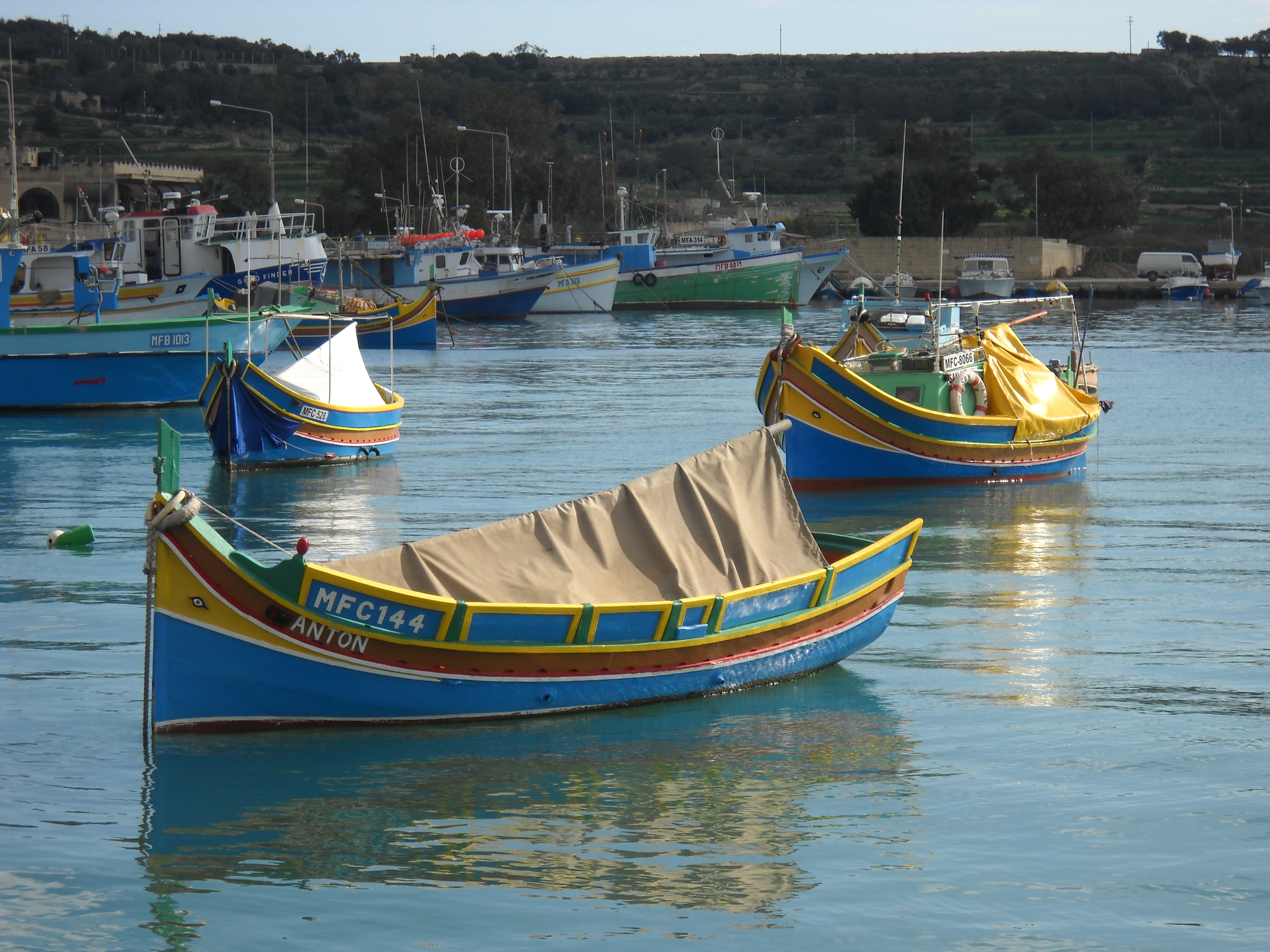 Maltese style boats (luzzu)